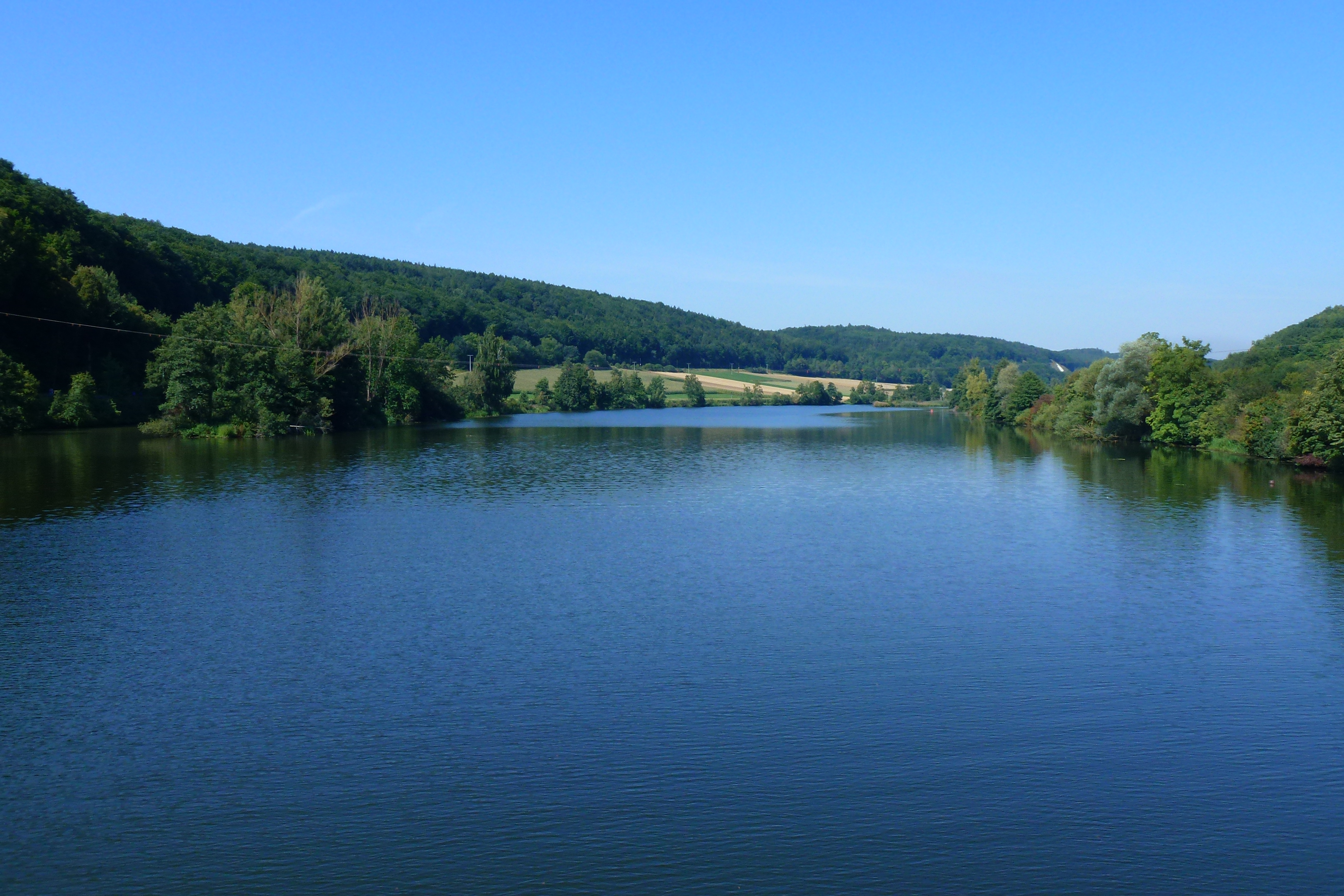 Naab river near Regensburg - view from bike bridge